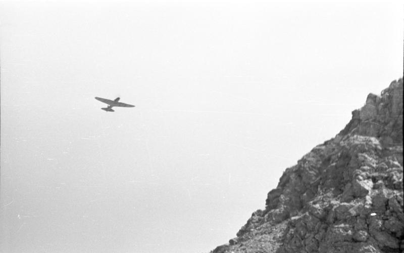 Information added by Wikimedia users.English (summary translation): Russian air strike over the Kerch Peninsula